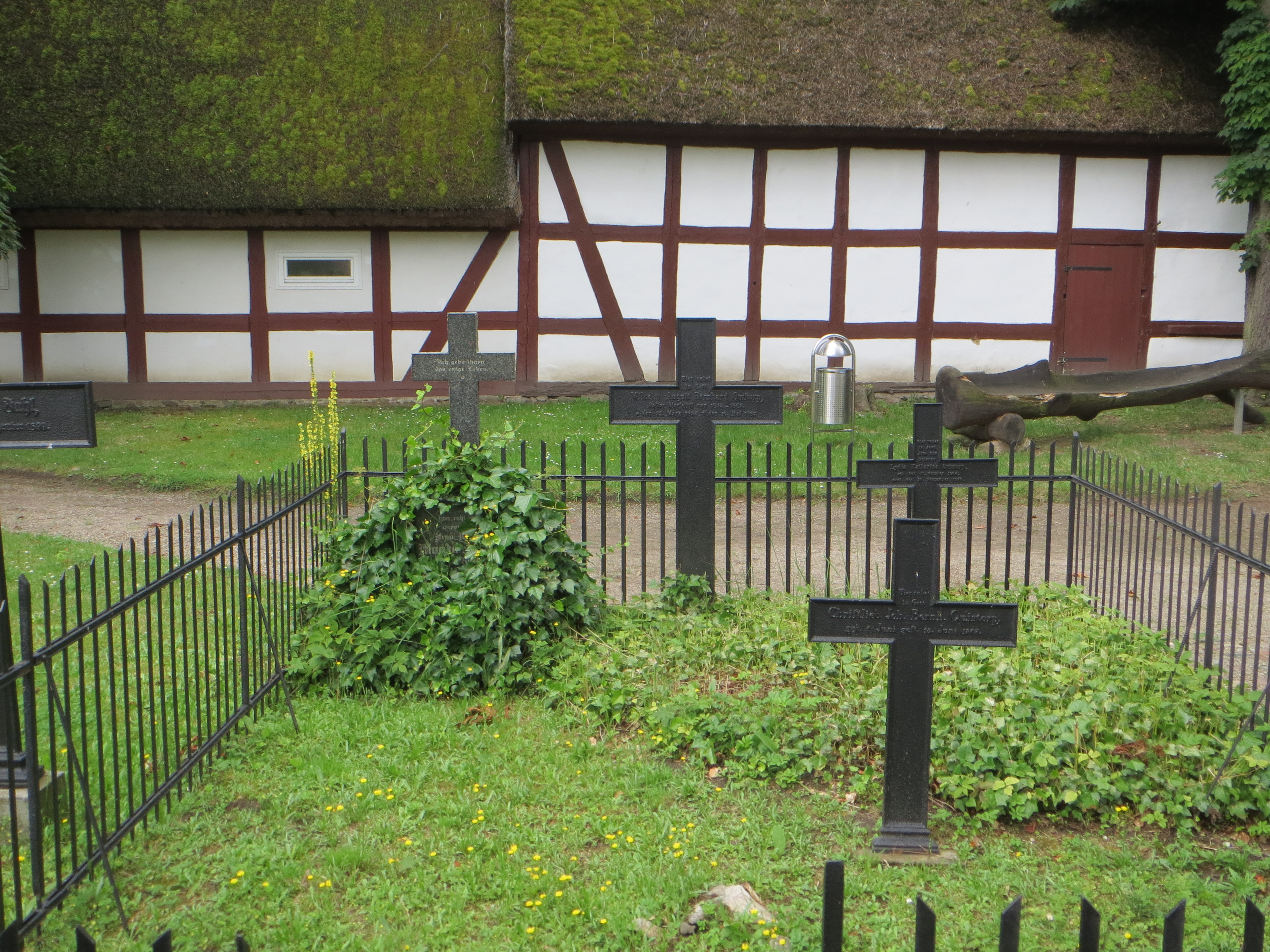 Grave of Pastor Wilhelm Quistorp in next to cjurch in Ducherow